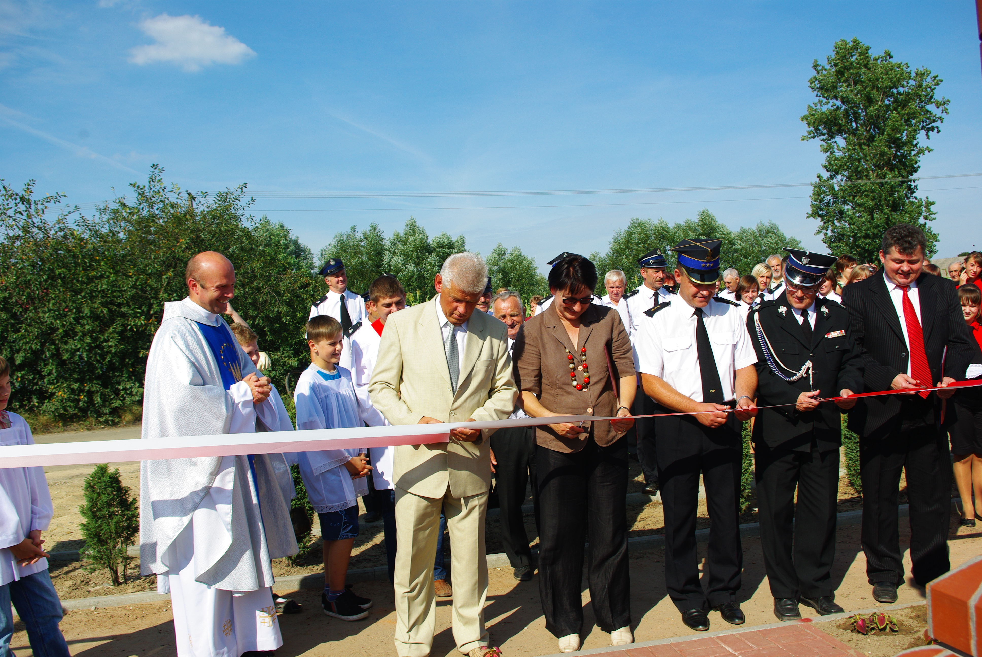 Barchlin 2009, Poland, Grand Opening